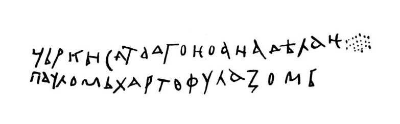 Bulgarian-language Cyrillic inscription of Chartophylax Paul from the Round Church in Preslav. The translation reads: "Church of Saint John, built by chartophylax Paul".